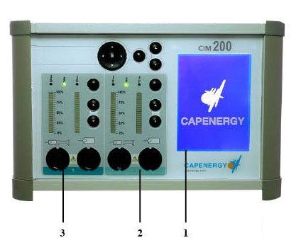 Second Generation Tecar device